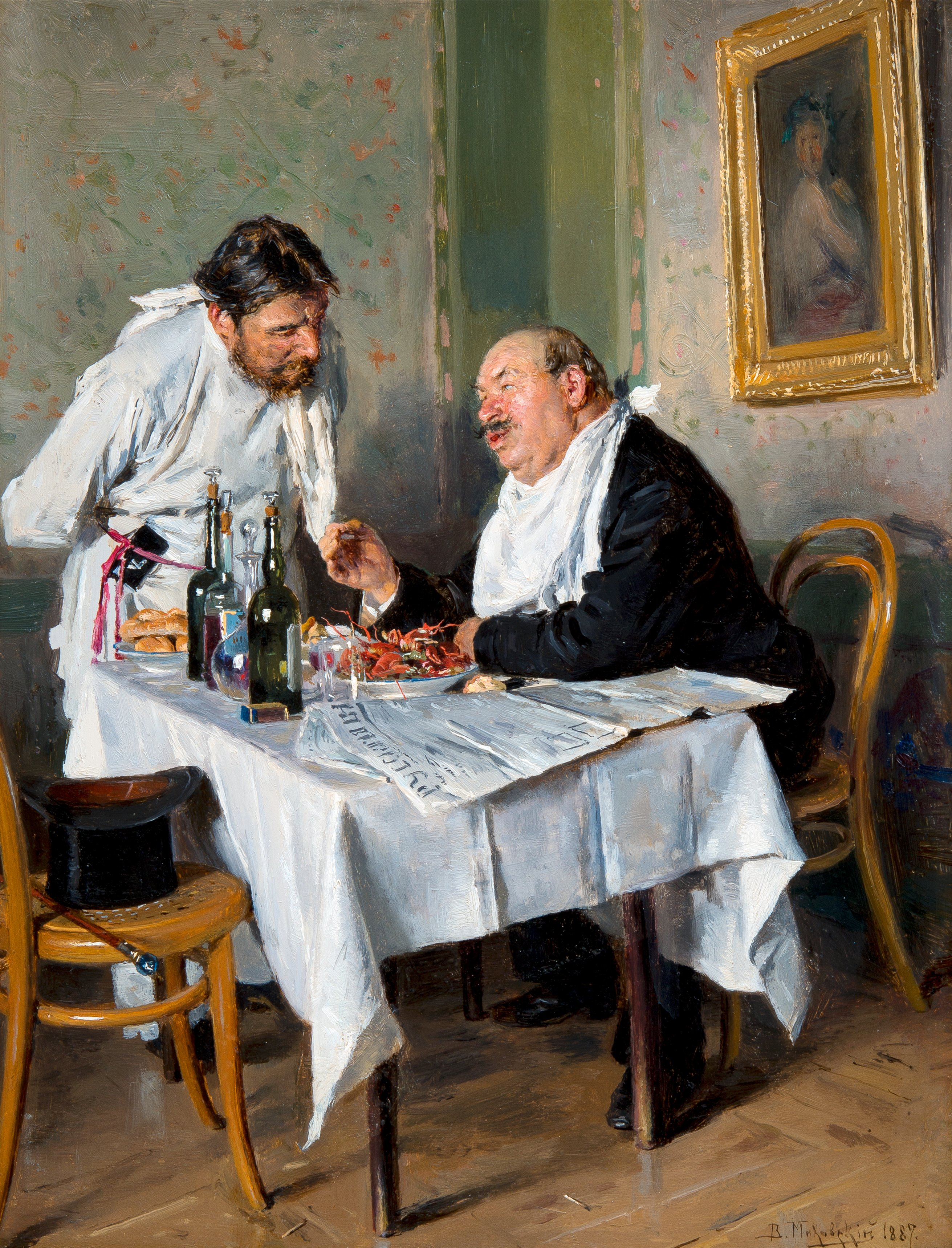 Vladimir Egorovich Makovski: In the tavern. Sign. 1887. Oil on wooden panel 36x28 cm.